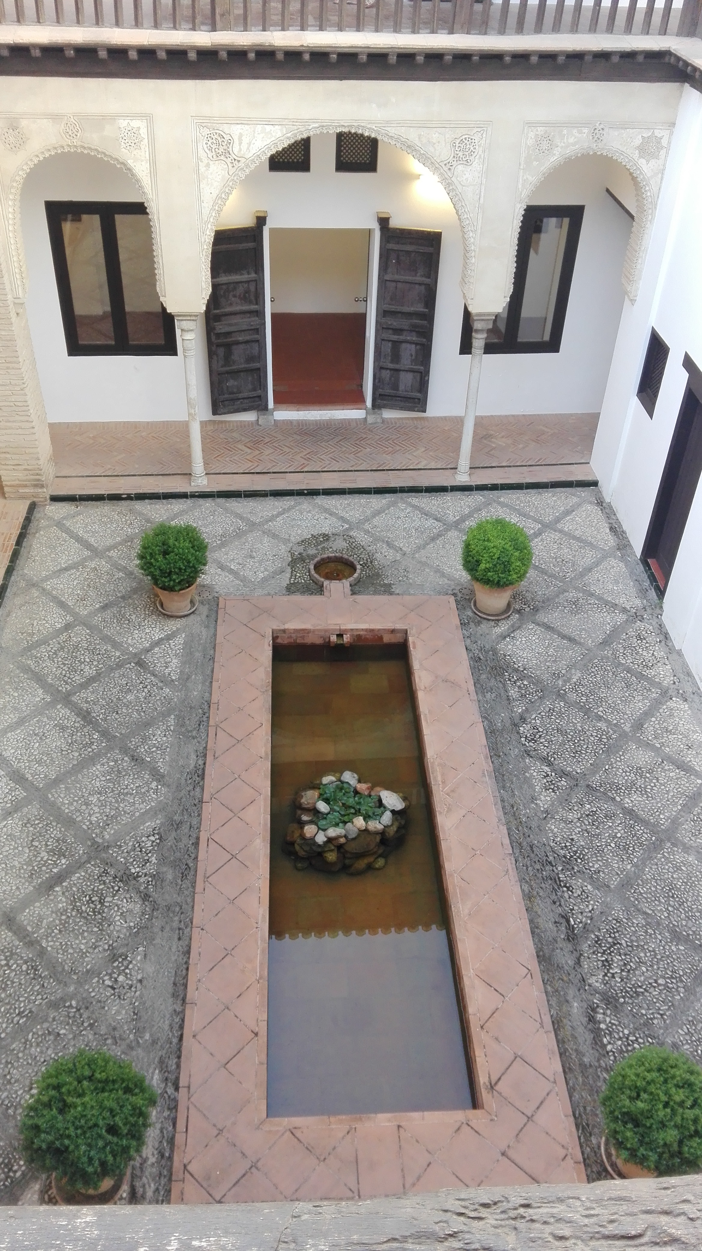 Casa de Zafra (inside)